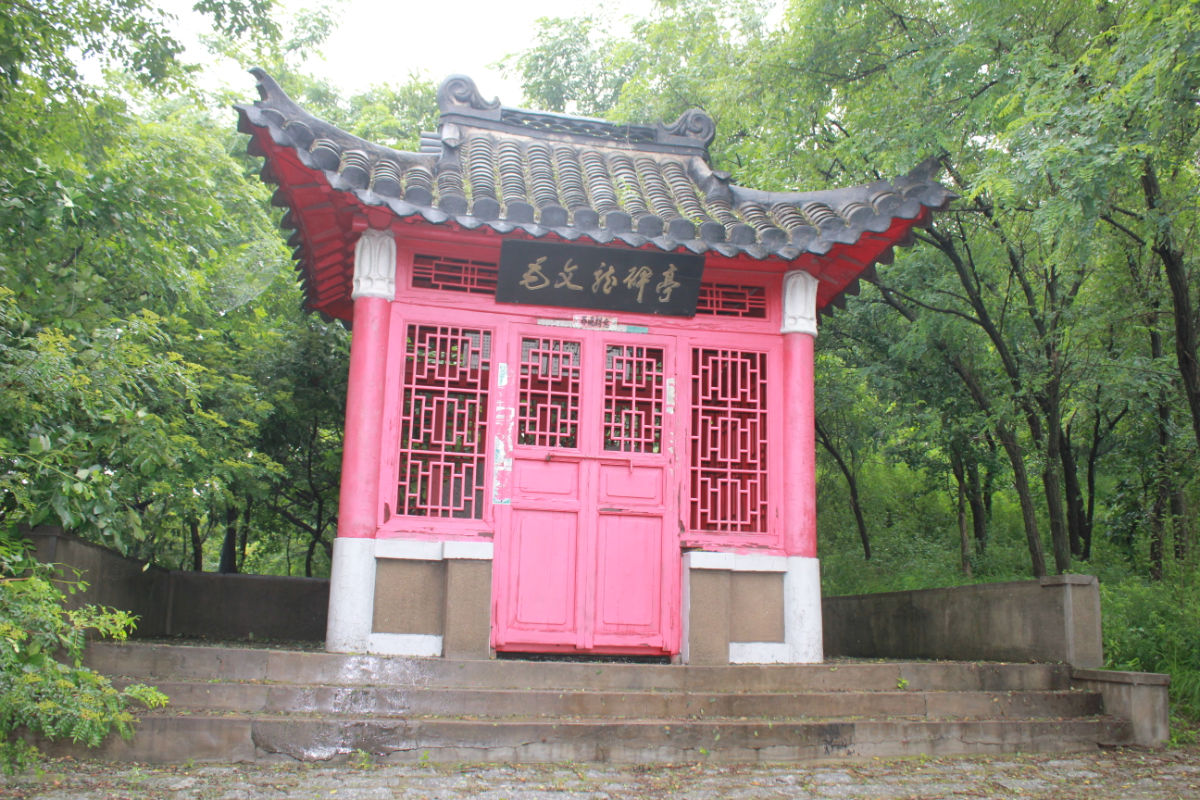 wenlong mao gravestone